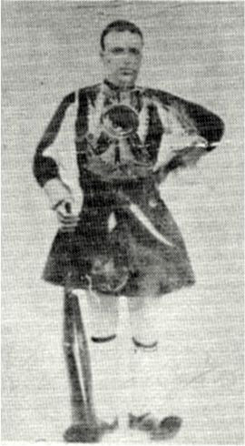 Chrisos Bivulas